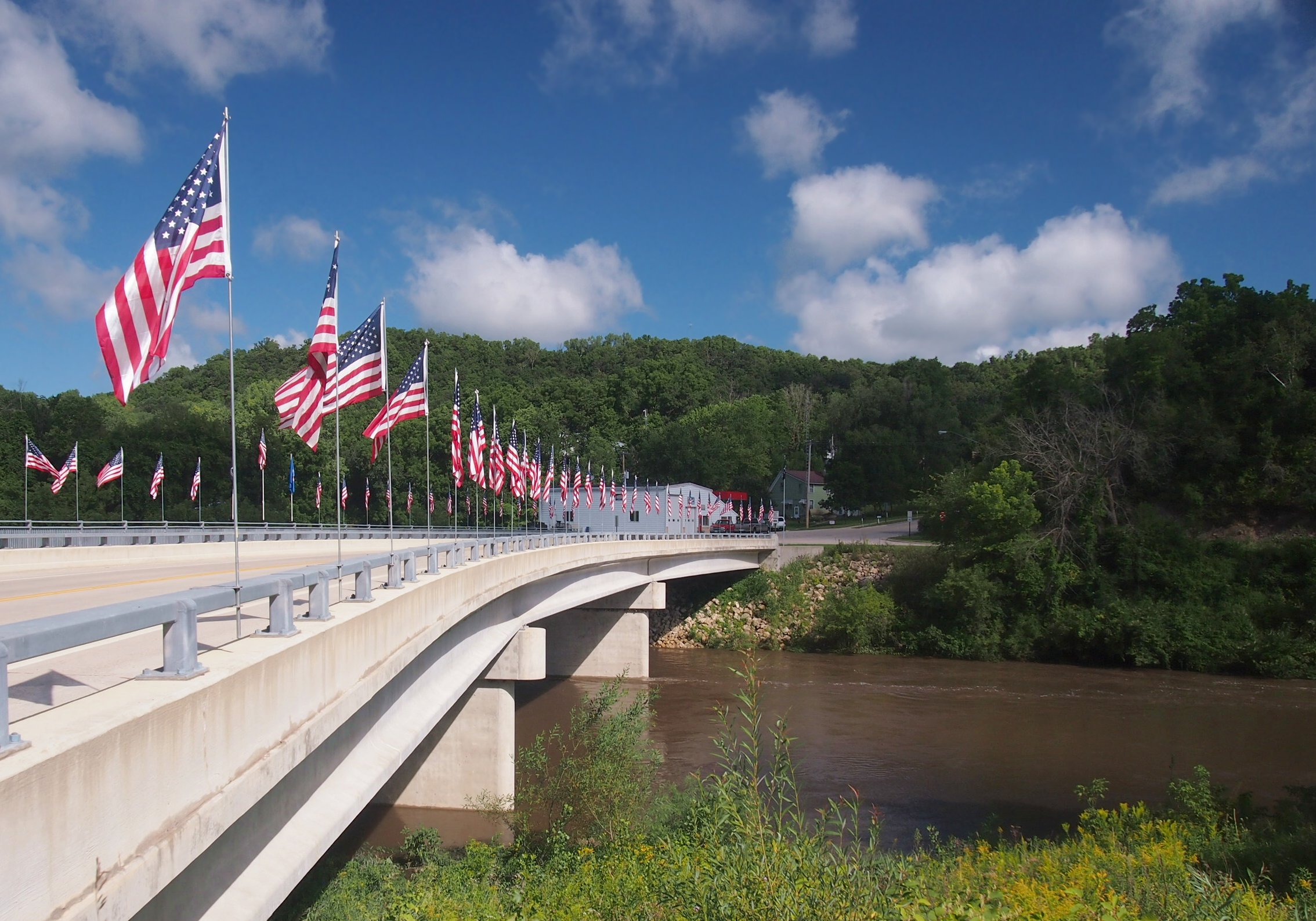 Wabasha County Veterans Memorial Bridge over the Zumbro River, Millville, Minnesota, USA.